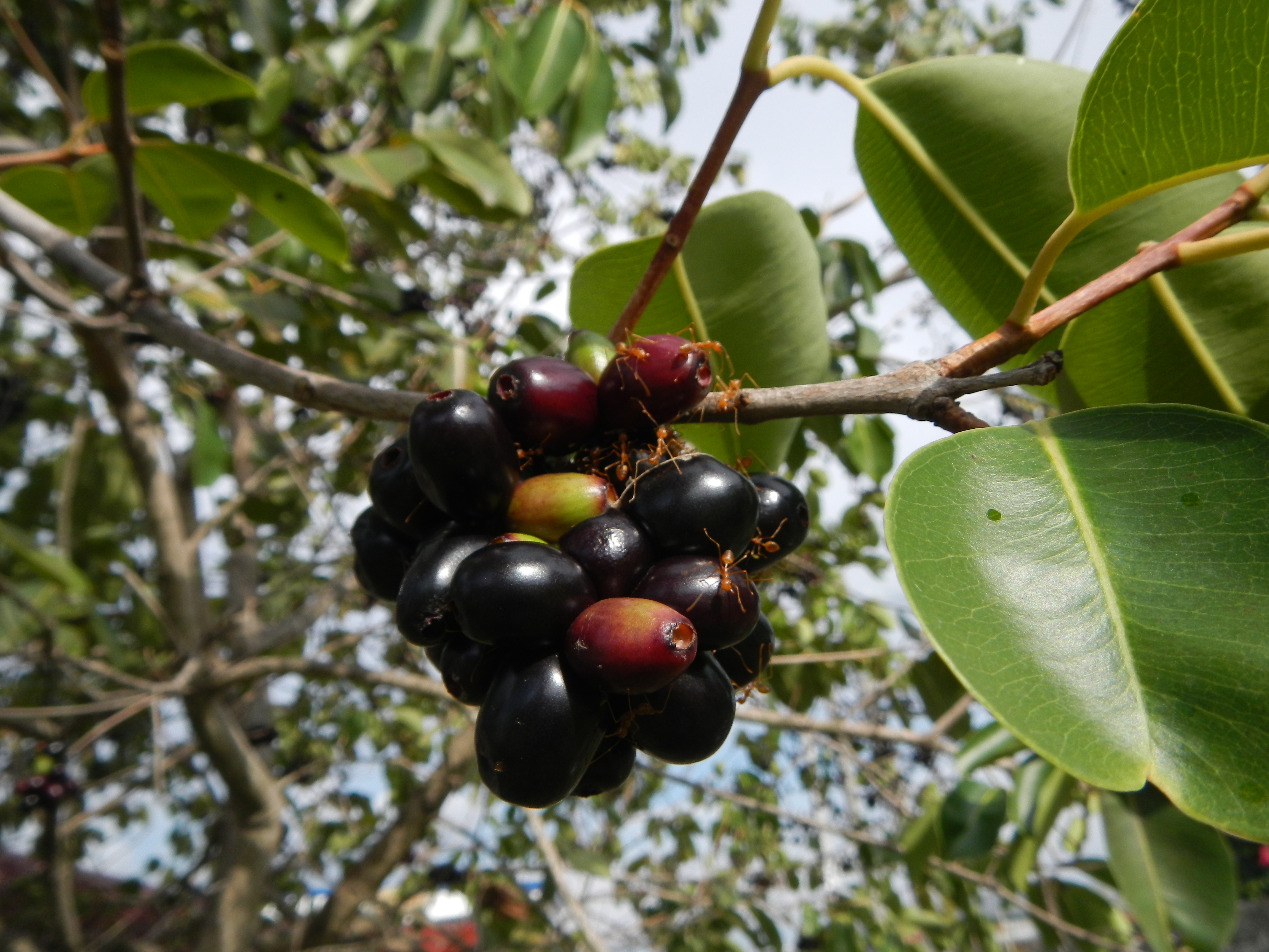 Syzygium cumini fruits (is also known as jambul, jamboola, Java plum, jamun, jaam, kalojaam, jamblang, jambolan, black plum, Damson plum, and Duhat in Philippines, located at Barangay Sapang Bato Angeles City, Pampanga inside and near gate of Clark Freeport Zone).